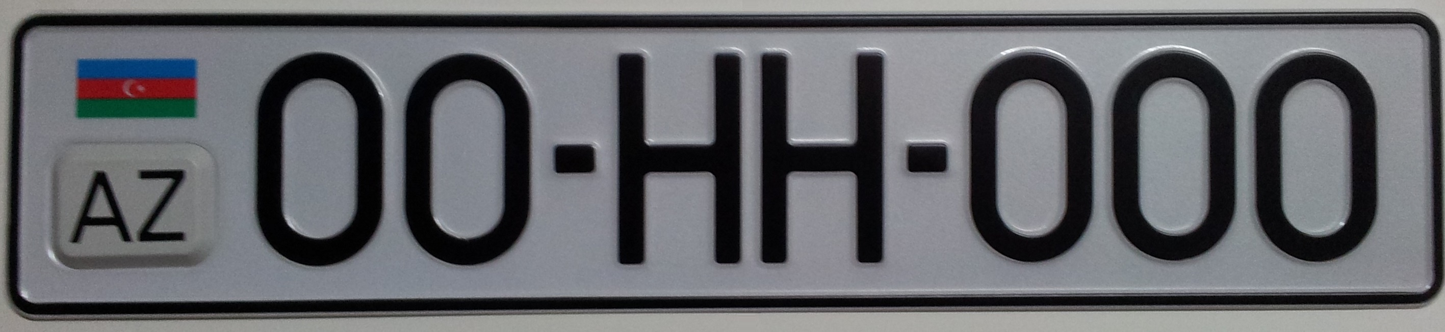 Since January 2011 all the new Azeri License plates agree to the new format that includes an electronic RFiD TAG.